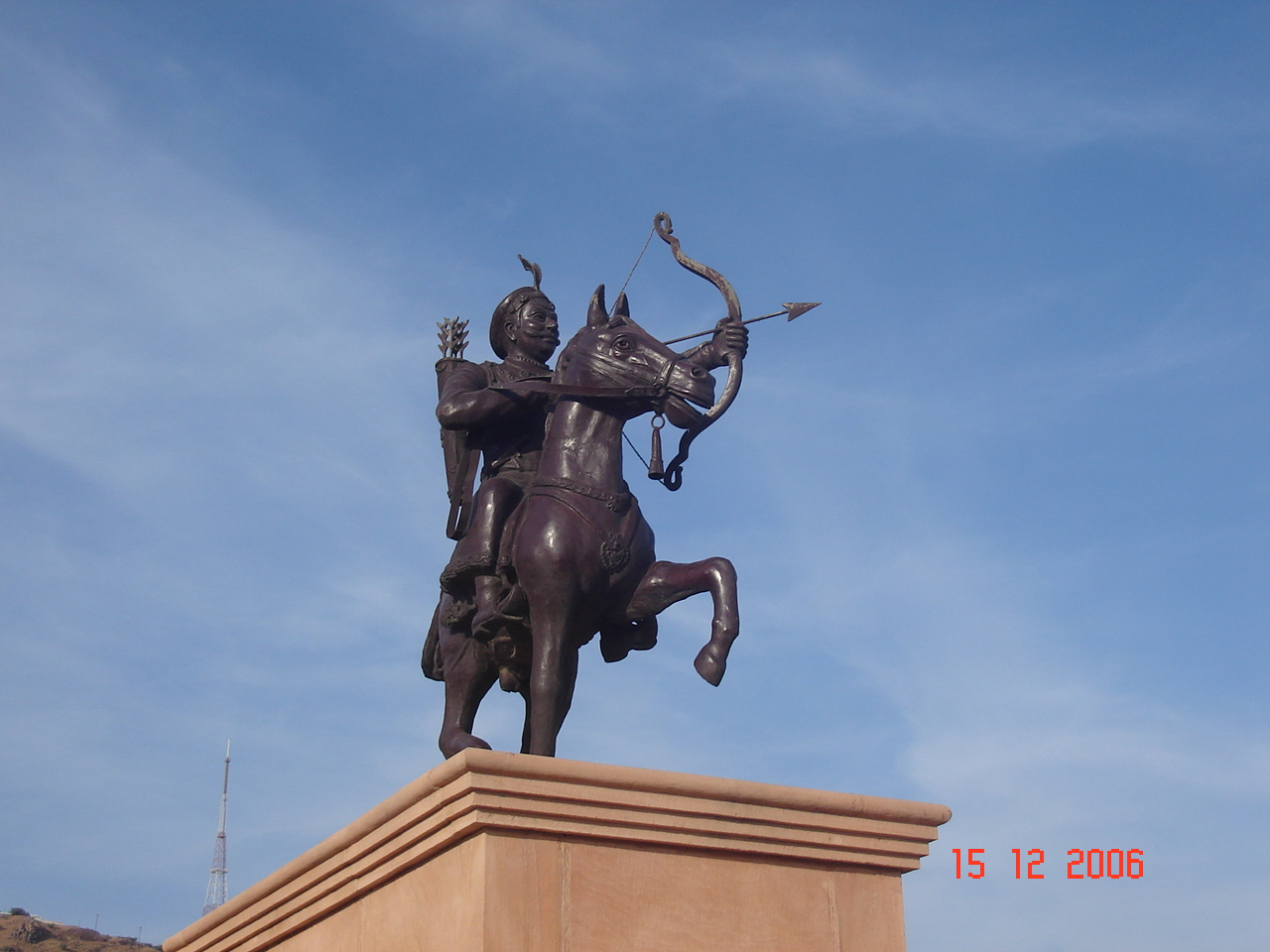 Statue of Prithviraj Chauhan at Ajmer.